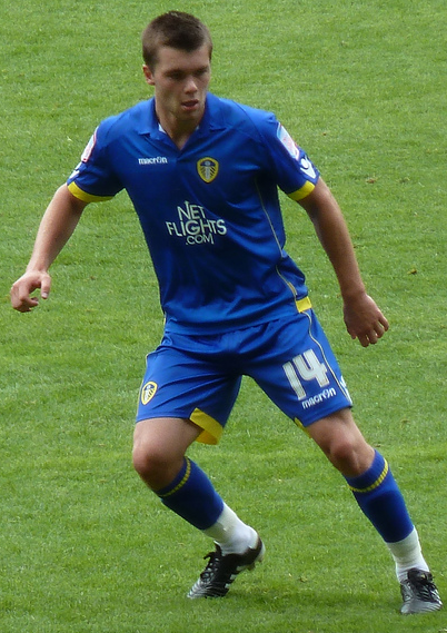 Young midfielder Jonathan Howson in action for Leeds United during the 2010 pre-season.